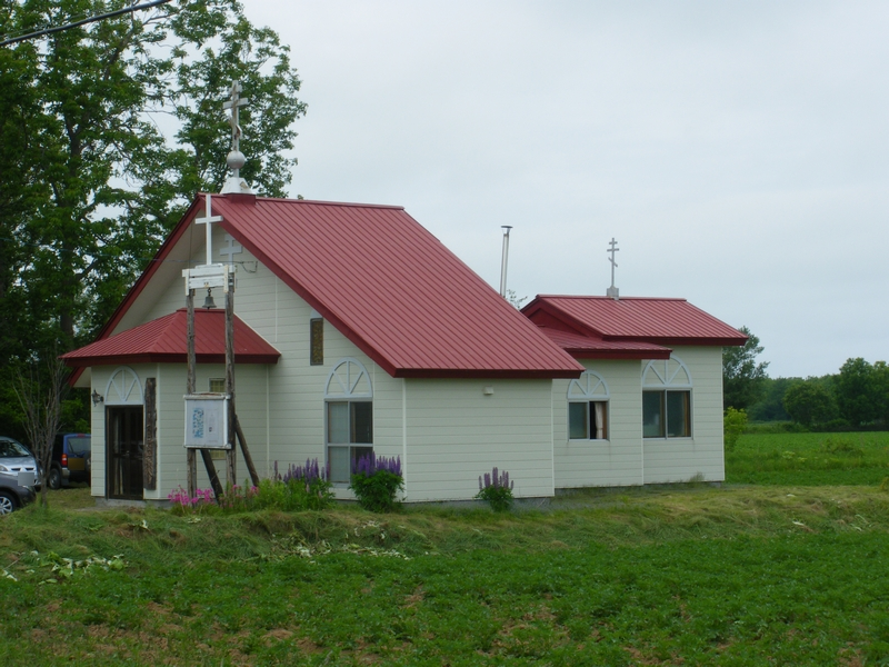 Orthodox Church in Shari, dedicated to Annunciation, belonging to Orthodox Church in Japan.